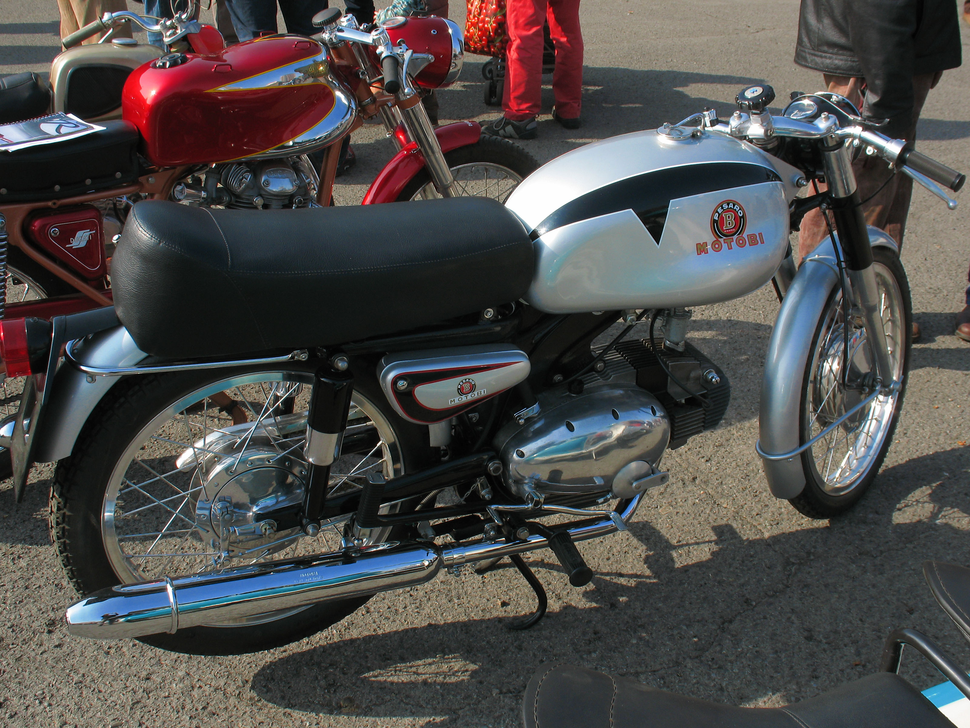 Nut sure about the model